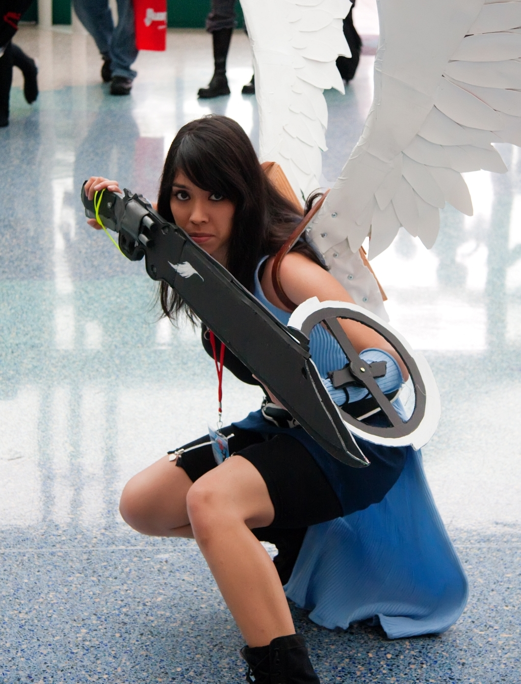 Taken on July 3, 2010 Dowtown Carrier Annex, Los Angeles, CA, US Canon EOS 40D